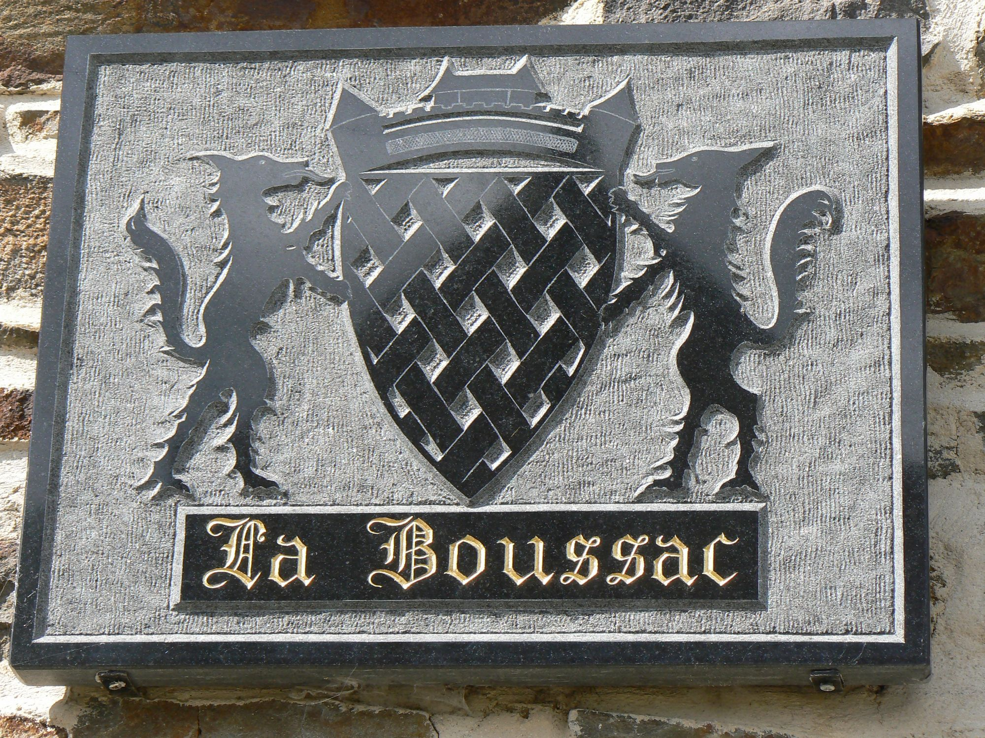 Coat of Arms of the Village of La Boussac. Blazon: Argent fretty of ten Vert. A mural crown of the ancient walled manor of La Boussac. Supporters: Dexter - Reynard, Sinister - Vixen, each probably Gules.